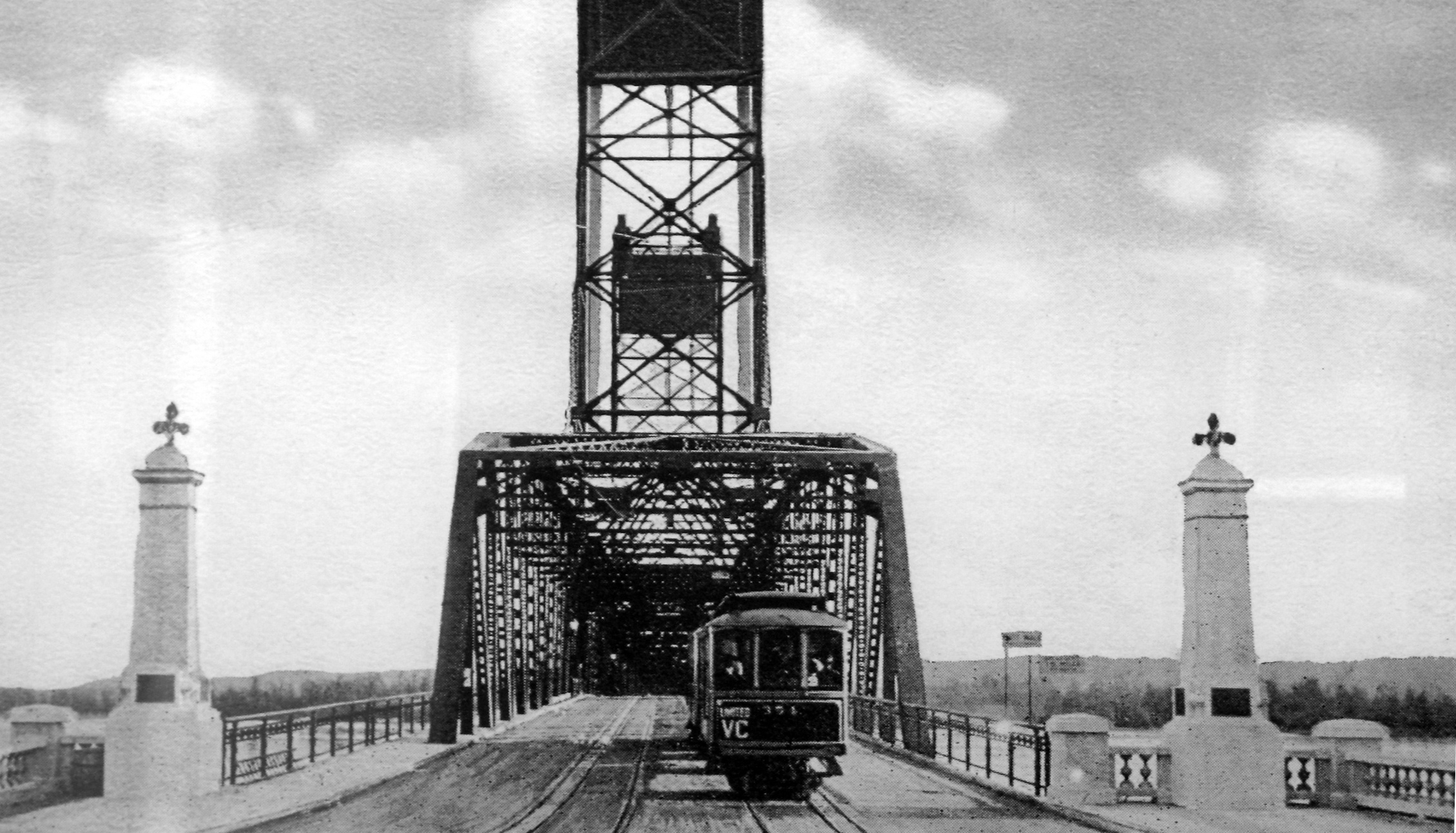 A streetcar sharing the [Washington-Oregon] Interstate Bridge with cars, most of them Model T Fords. A marker was placed at the foot of the bridge by the Daughters of the American Revolution with an inscription by the English writer Thomas Babington Macaulay, which reads: “Of all inventions, the alphabet and the printing press alone excepted, those inventions which abridge distance have done most for the civilizations of our species. Every improvement of the means of locomotion benefits mankind morally and intellectually as well as materially, and not only facilitates the interchange of the various productions of nature and art, but tends to move national and provincial antipathies, and to bind together all the branches of the great human family.”